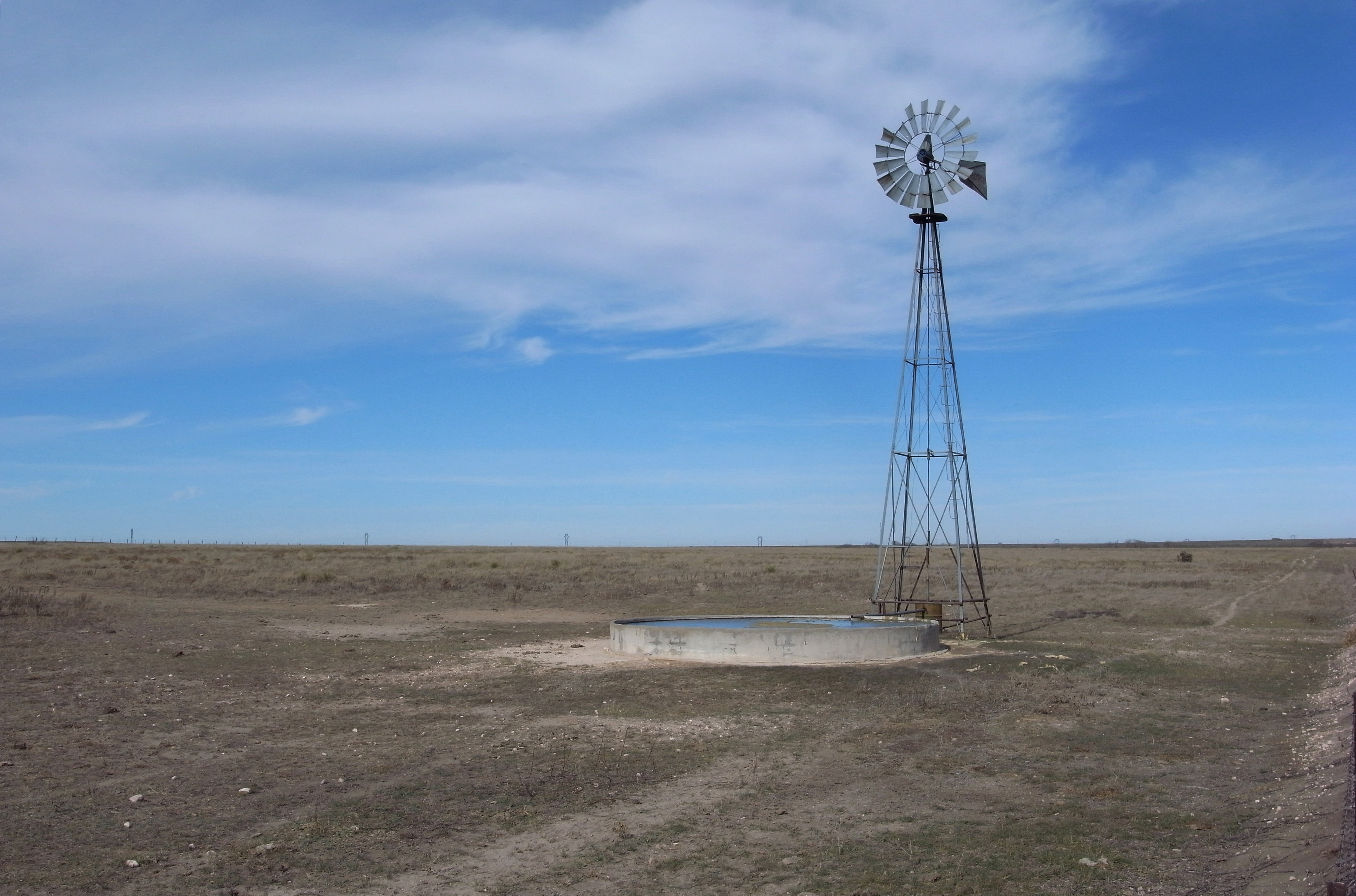 Windmill at Buffalo Lake National Wildlife Refuge pumping water from the Ogallala Aquifer.